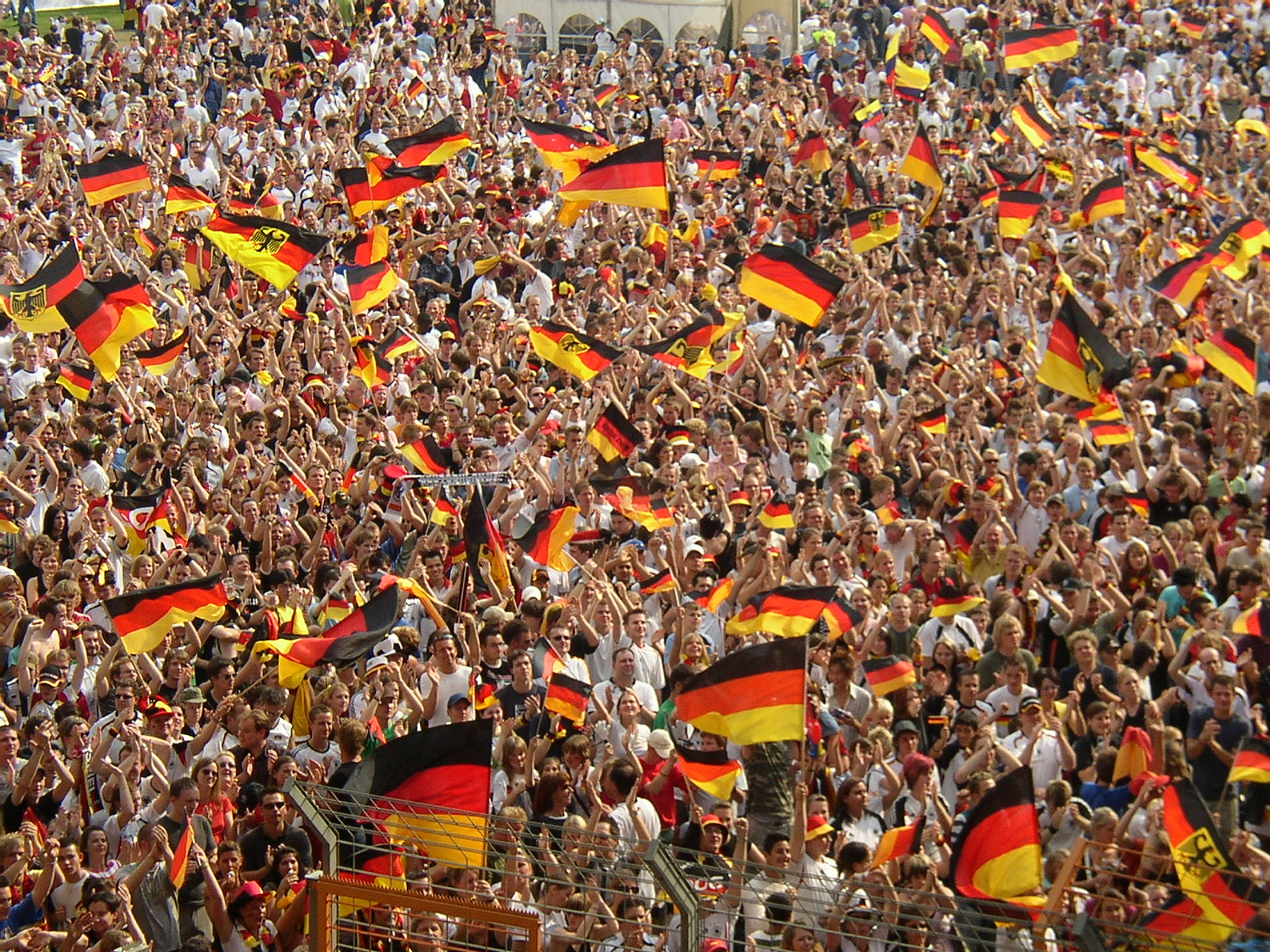 German fans at the FIFA Worldcup 2006 in Germany, at the public viewing of the Germany - Ecuador match at the Ruhrstadion Bochum.